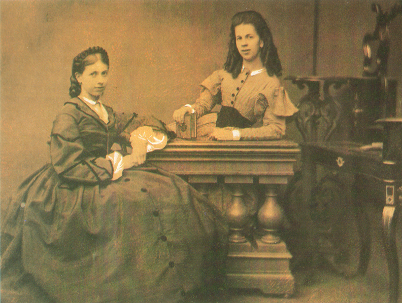 S.A.Tolstaya (left) and T.A.Bers (right)